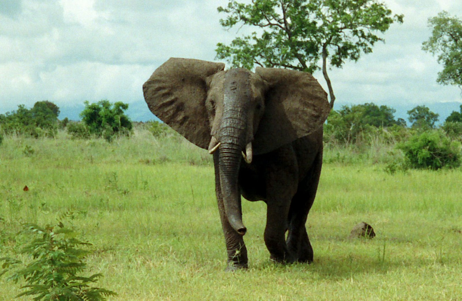 African Bush Elephant in Mikumi National Park, Tanzania